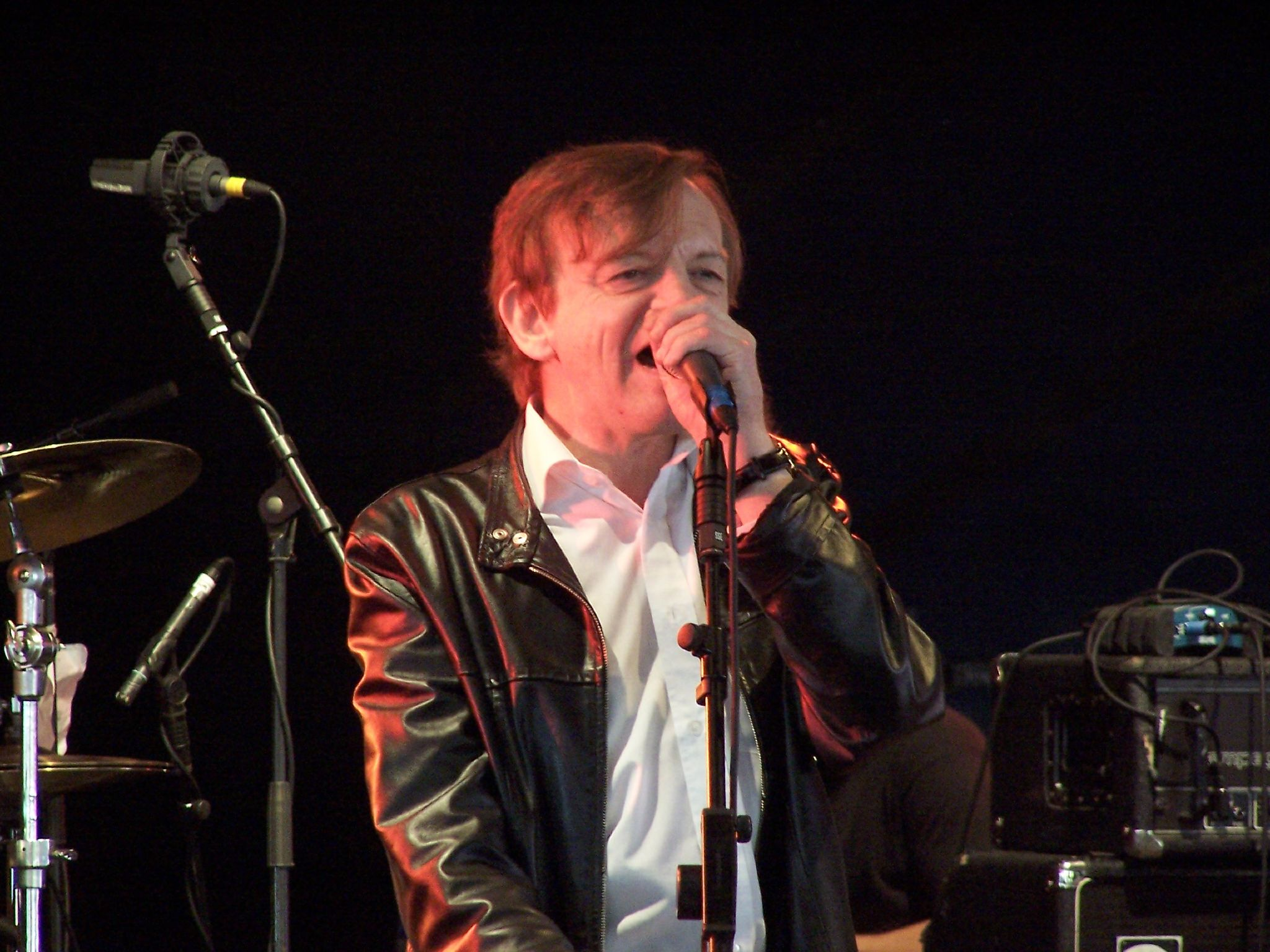 Leadsinger Mark E. Smith of The Fall.